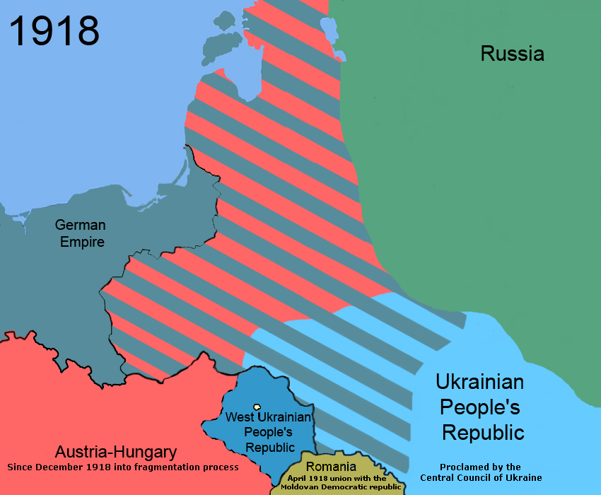 The West Ukrainian People's Republic was proclaimed on November 1, 1918 with Lviv as its capital. The proclamation of the Republic, which claimed sovereignty over Eastern Galicia, including the Carpathians up to the city of Nowy Sącz in the West, as well as Volhynia, Carpathian Ruthenia and Bukovina was a complete surprise for the Poles. Although the majority of the population of the Western-Ukrainian People's Republic were Ukrainians, large parts of the claimed territory were considered Polish by the Poles. In Lviv the Ukrainian residents enthusiastically supported the proclamation, the city's significant Jewish minority accepted or remained neutral towards the Ukrainian proclamation, while the Polish minority was shocked to find themselves in a proclaimed Ukrainian state.